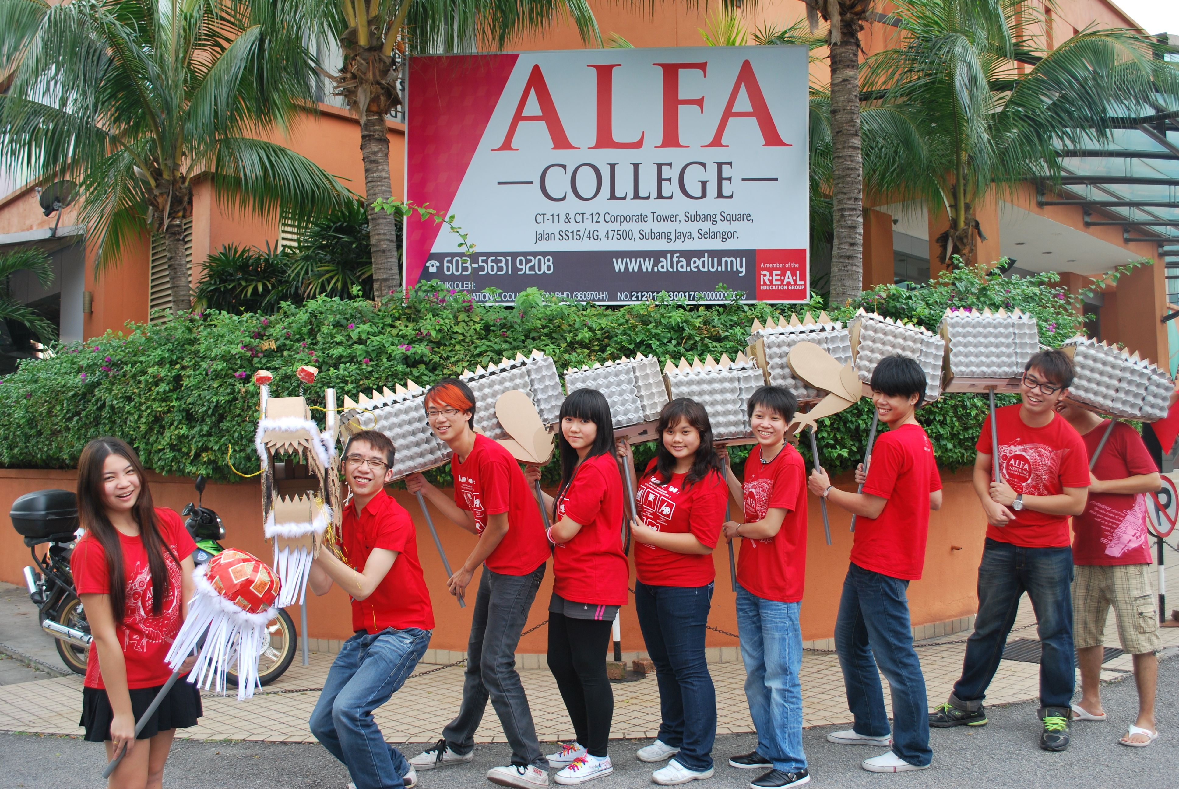 Students at ALFA College in Subang Jaya, Selangor, Malaysia